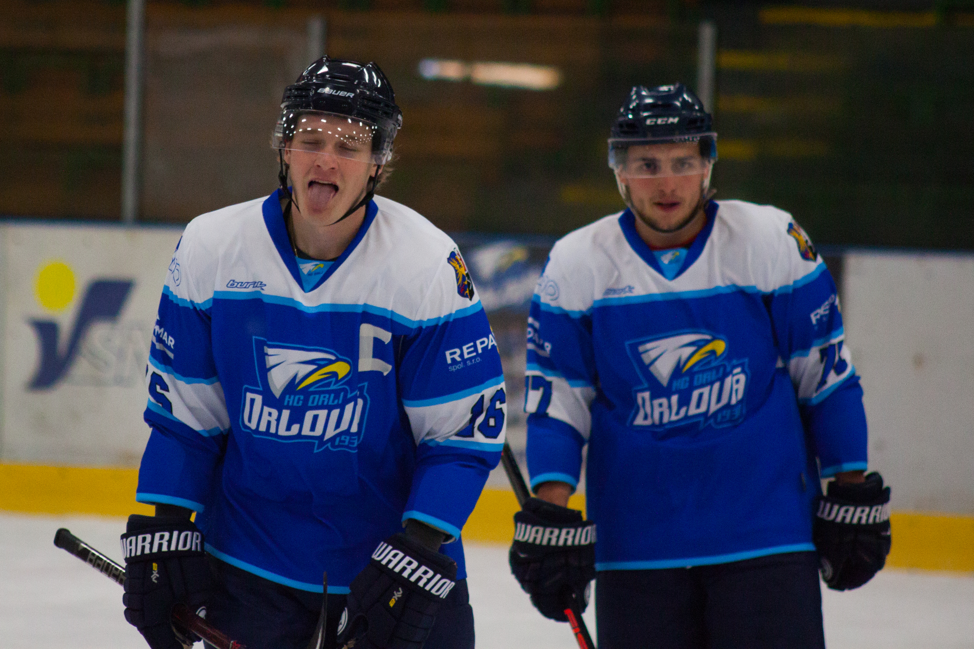 Second Czech league match between HC Orlová-SKHL Žďár nad Sázvou played on 3 November 2018